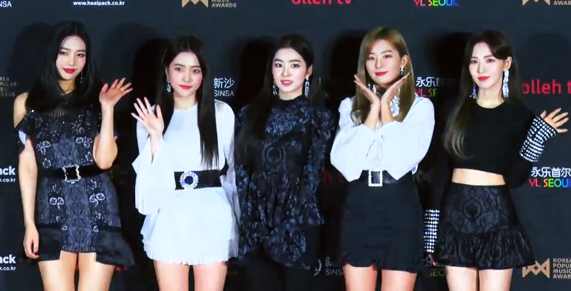 Red Velvet at Korea Popular Music Awards red carpet on December 20, 2018.